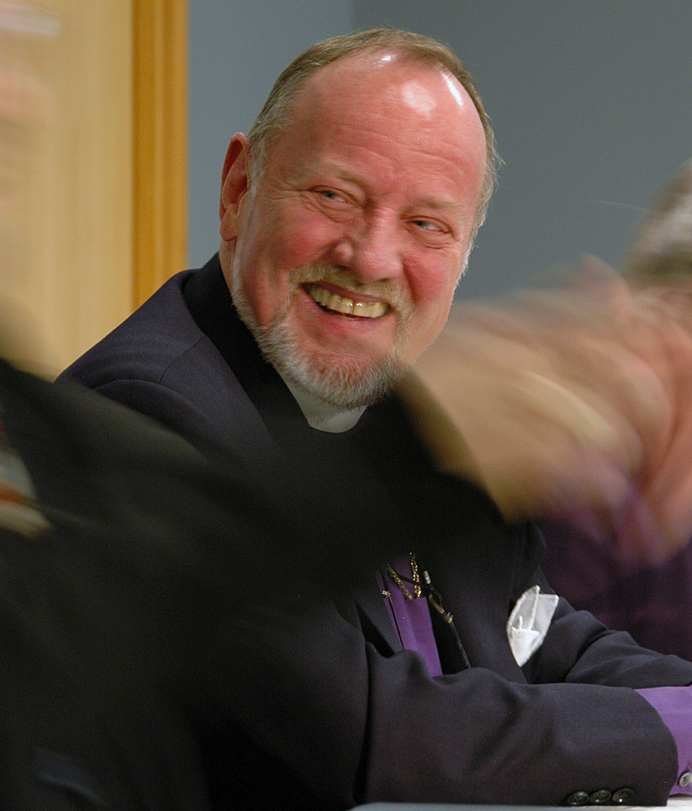 Andrew Hutchison, Primate of the Anglican Church of Canada and Mark MacDonald, the new National Indigenous Bishop.